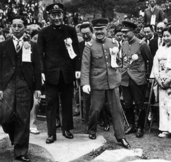 Inaugural Party for the newly appointed War Minister Seoshirō Itagaki (1885–1948, center right). Among the guests were Naval Minister Mitsumasa Yonai (1880–48, center left) and Vice War Minister Hideki Tōjō (1884–1948, to the right of Itagaki).